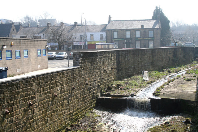 The Goit, Nelson, Lancashire Looking upstream along The Goit, or Walverden Water to give it its proper name, as it flows through the centre of Nelson. Local youths have decided to beautify it by the addition of a shopping trolley from the nearby Tesco store. In the background, the 'Prince of Wales' on Leeds Road is seen.